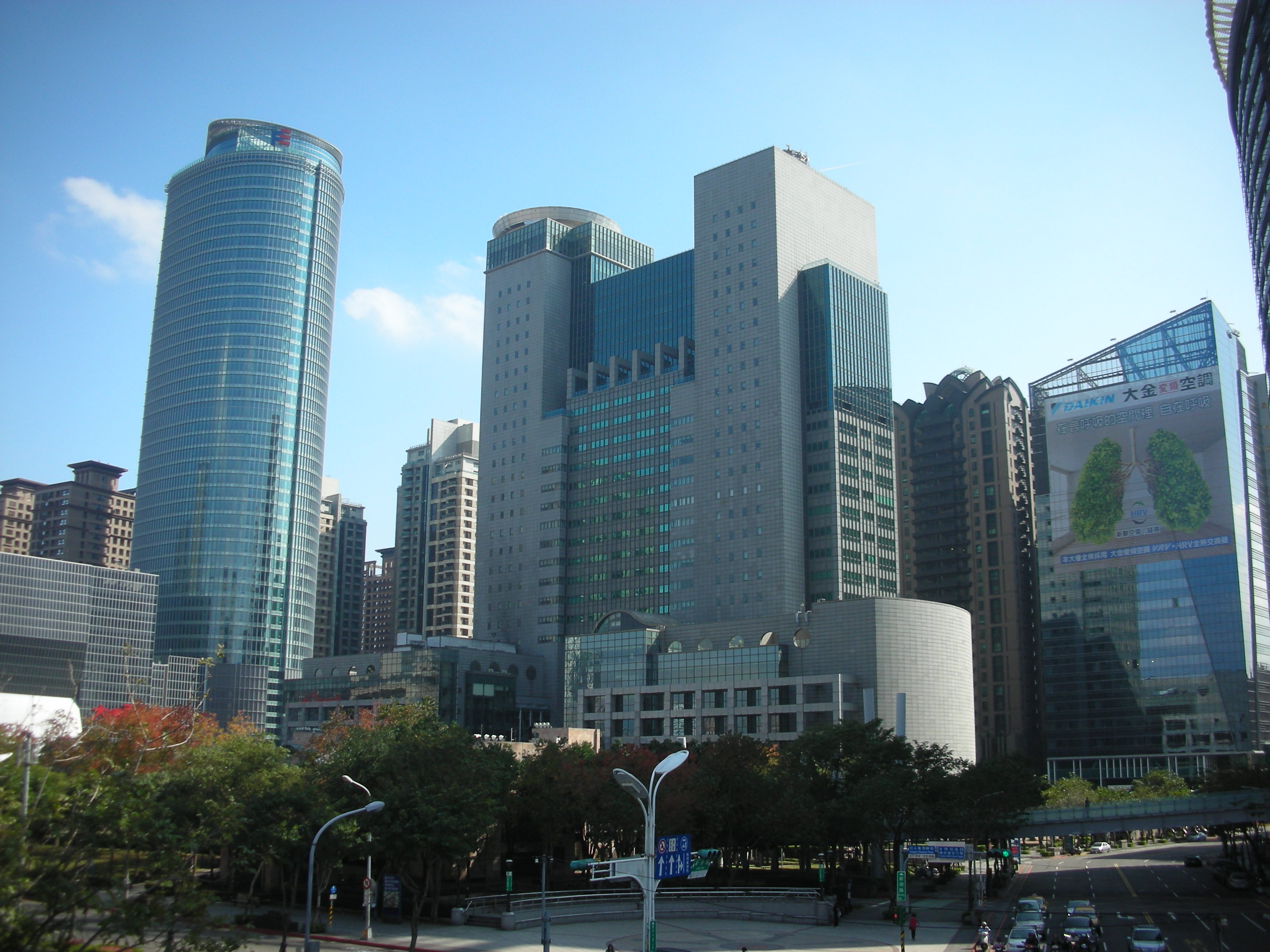 New Taipei city hall skyline in 2015